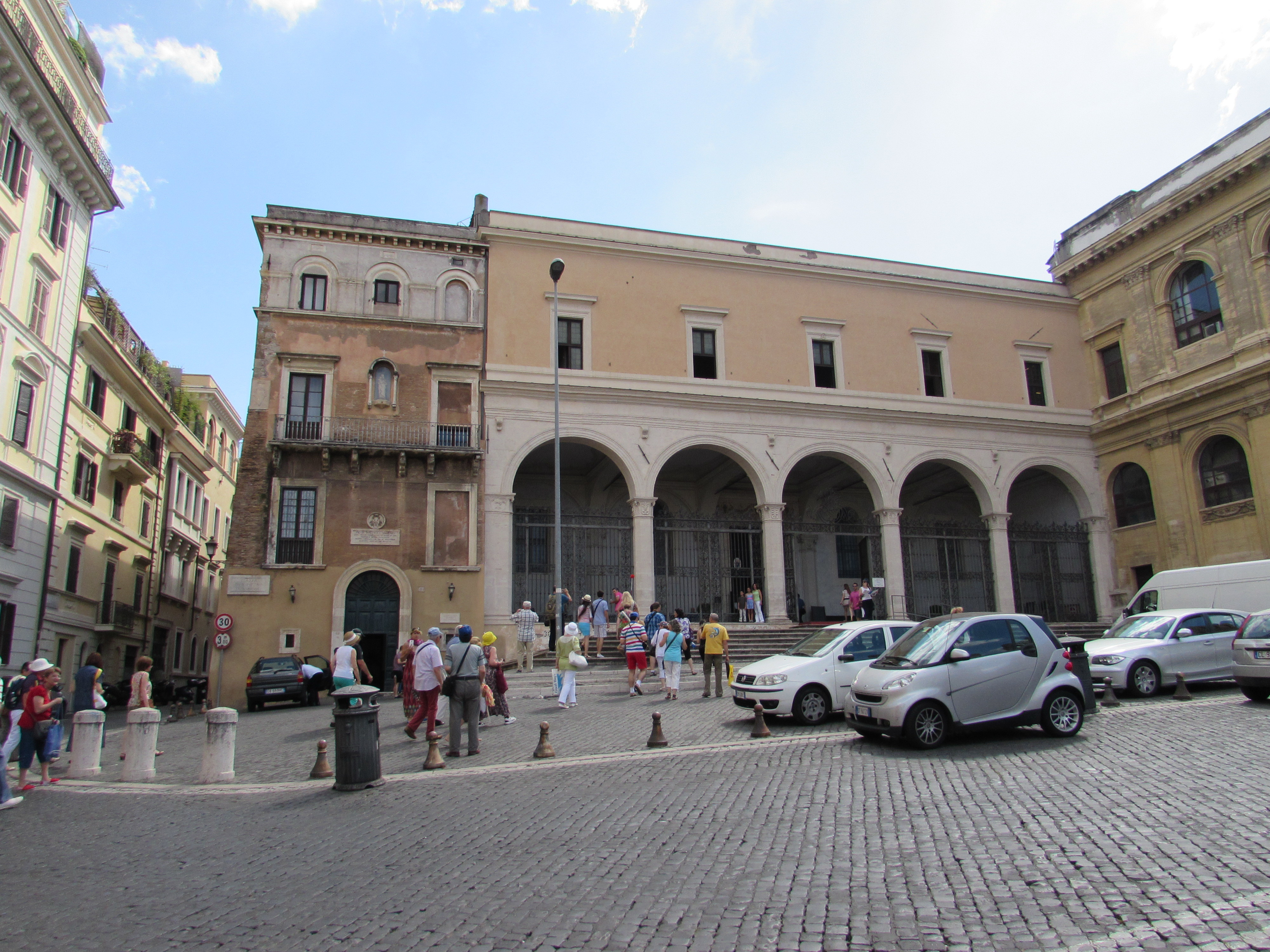 San Pietro in Vincoli Church (Rome)